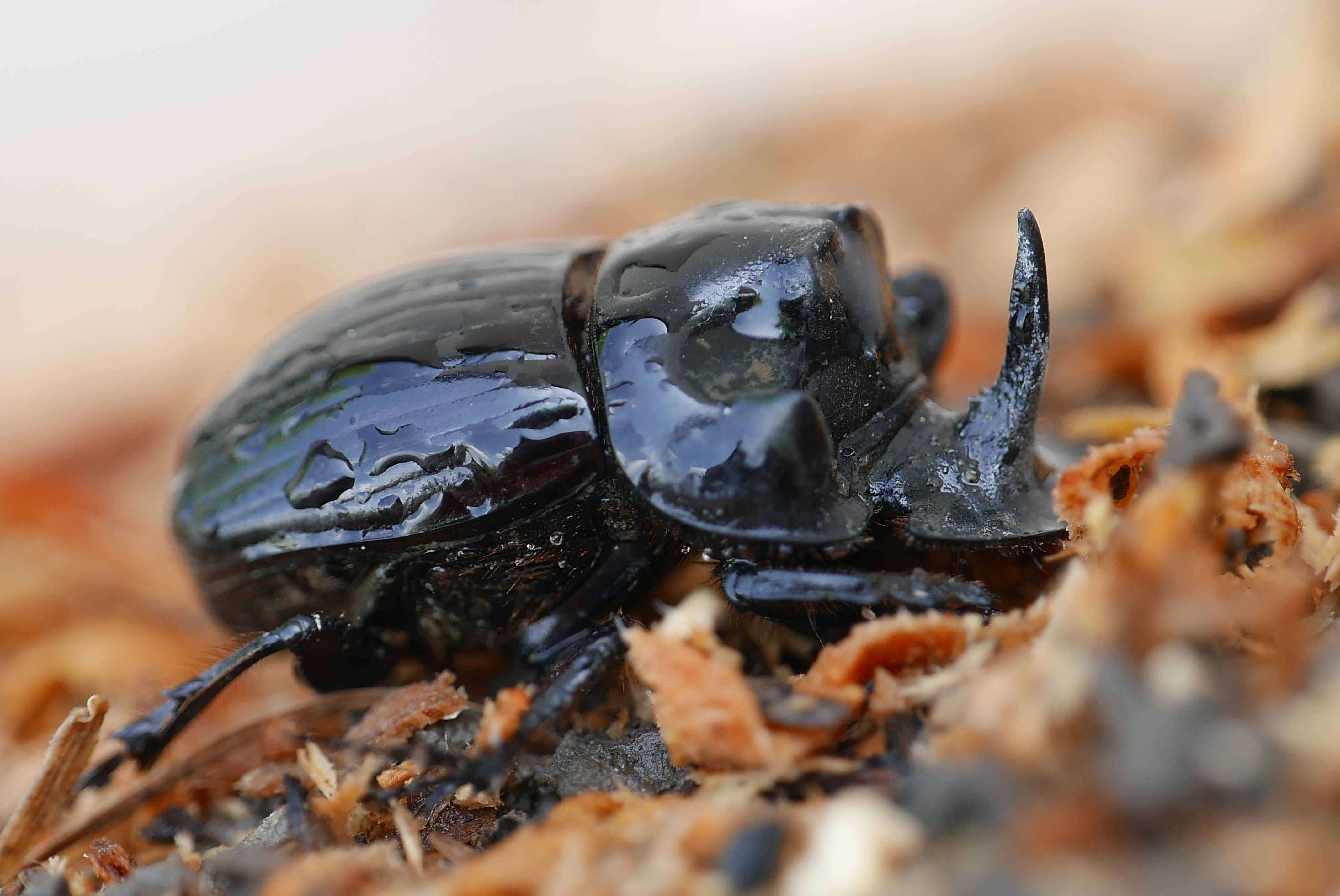 Copris lunaris 02. Found dead in horse manure fertilizer. Poland, Jaworze, Silesia